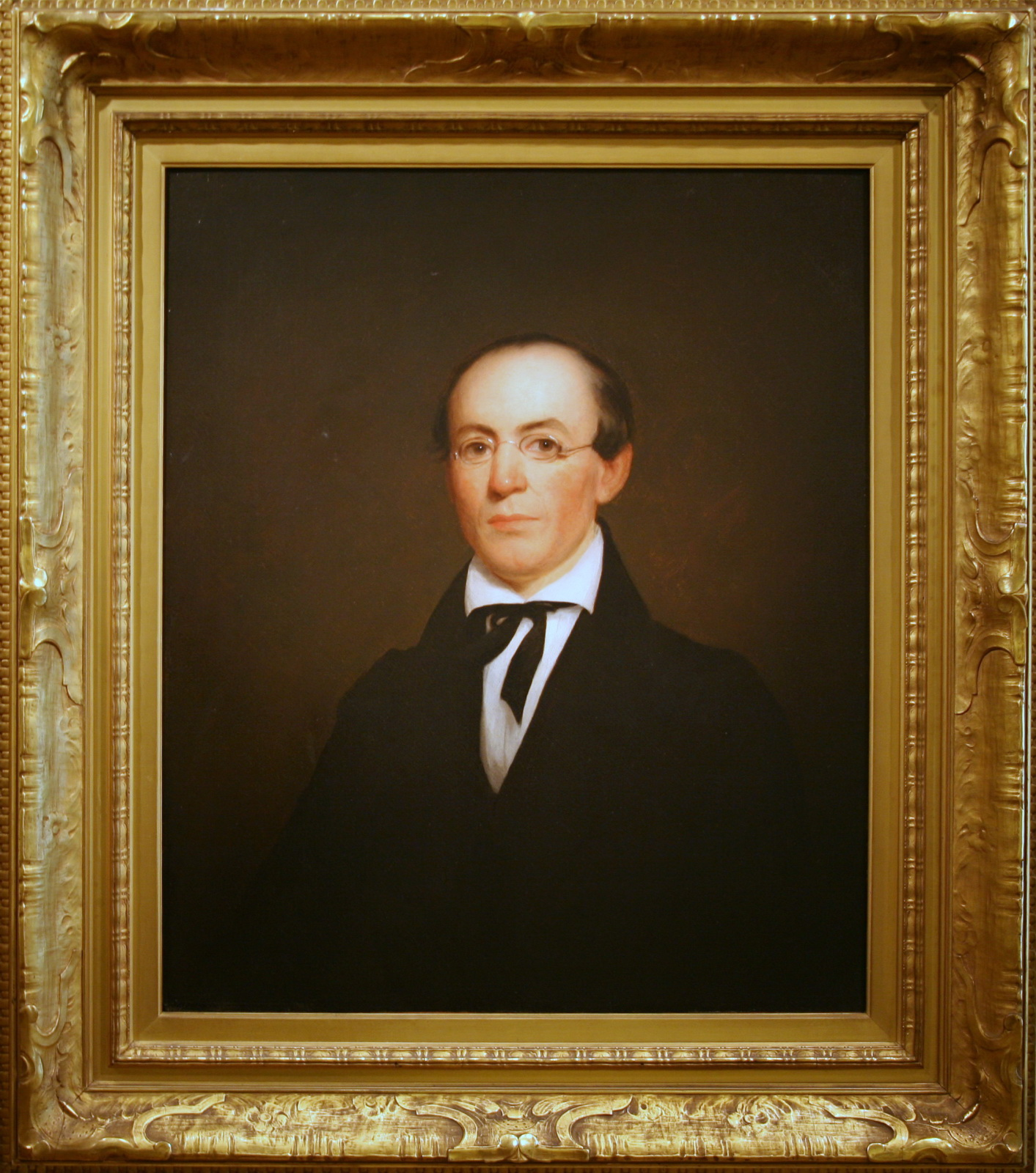 William Lloyd Garrison, 1833, Oil on wood by Nathaniel Jocelyn. Single-handedly, William Lloyd Garrison transformed the antislavery movement from a discussion about gradually ending slavery into a moral crusade demanding "immediate and complete emancipation." A printer and editor, Garrison experienced his near-religious conversion to abolitionism around 1828 and founded the American Anti-Slavery Society in 1833. At first, he was a lone, fierce, and unpopular voice; at one point, he was almost lynched in his hometown of Boston. But Garrison refused to back down: "I will not retreat a single inch-and I will be heard!" he thundered. His attack on slavery grew so fierce that he condemned the Constitution as a corrupt document for permitting it. Garrison's extremism was not shared by all, yet he and his growing number of followers forced the North to the previously radical proposition that slavery was both immoral and antithetical to the country's founding principles.